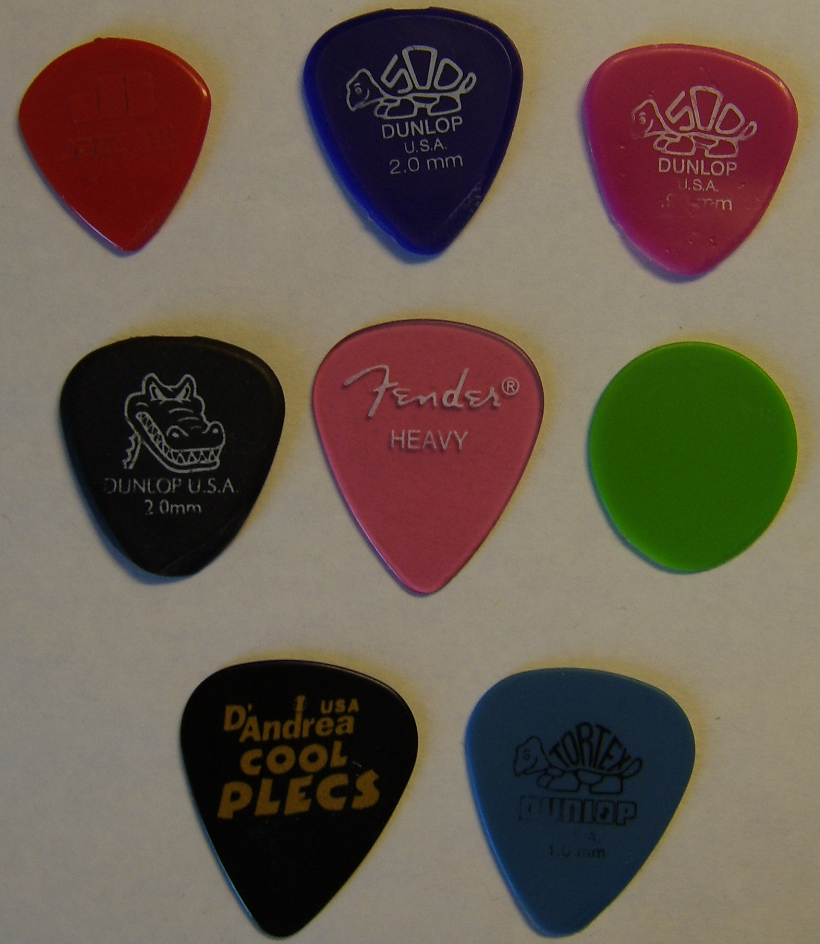 Various picks. From top left: Dunlop Jazz III, Dunlop SOD 2.0 mm, Dunlop SOD 0.96 mm, Dunlop Gator 2.0 mm, Fender Heavy, [unknown], D'Andrea Cool Plecs, Dunlop Tortex 1.0 mm.